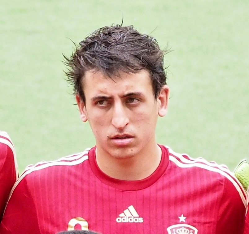 Mikel Oyarzabal, Spanish footballer, with Spain under 18 at the 2015 SBS Cup.